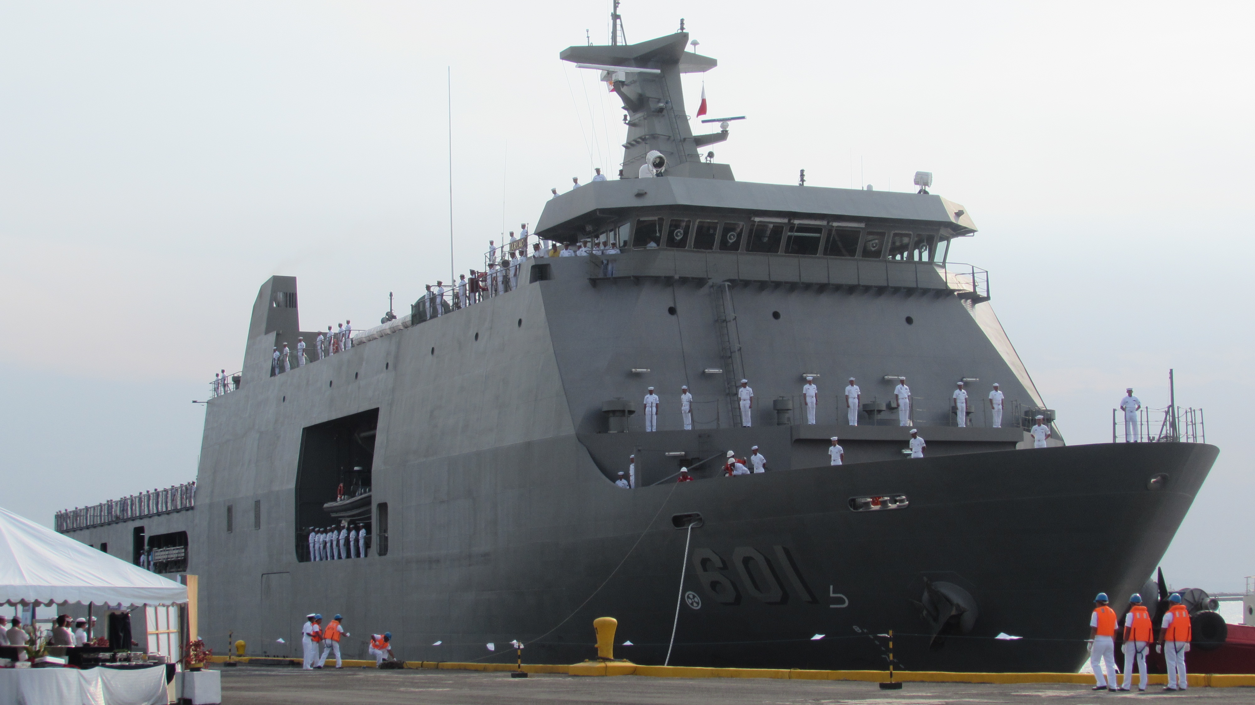 The LD-601 BRP Tarlac docking into Port. Photo taken at the Pier 13 of the Manila South Harbor during her arrival ceremony.